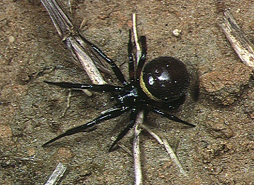 female Steatoda cingulata from Okinawa.